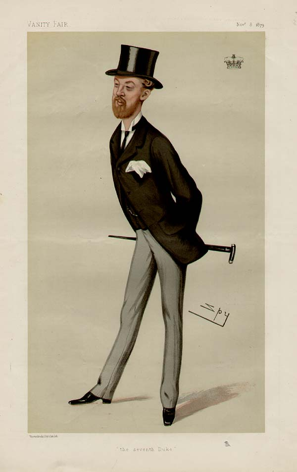 Statesmen No.316: Caricature of The John Stewart-Murray the 7th Duke of Athole. Caption reads: "the seventh Duke"